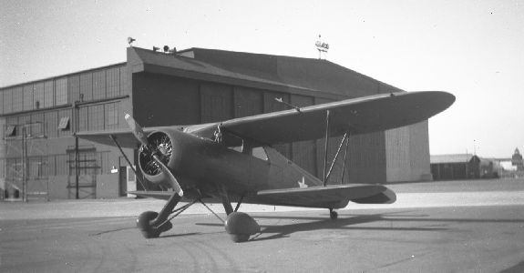 USAAF Waco UC-72 42-38271, at Hammer Field